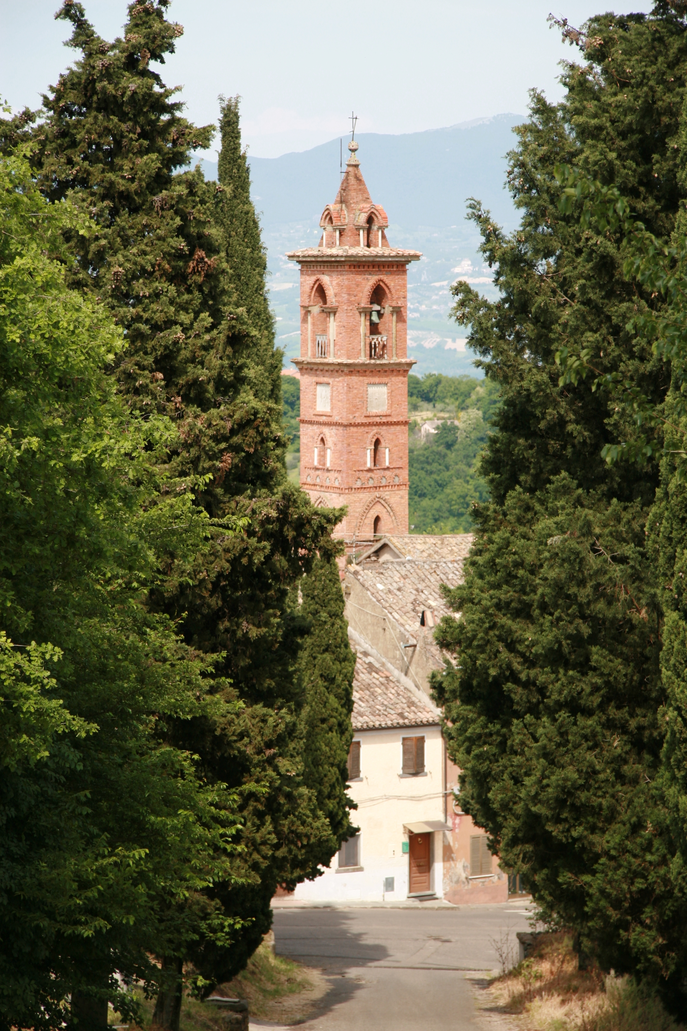 Castel Cellesi